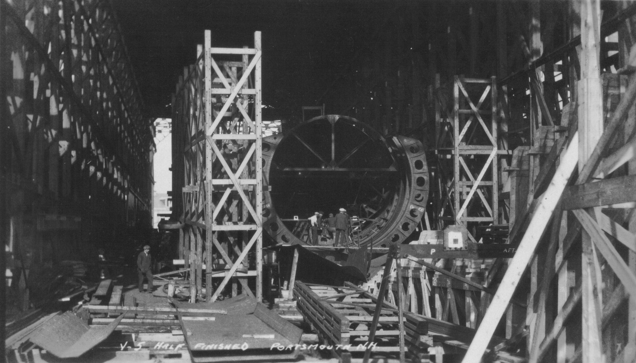 USS Narwhal (SS-167) (V5) half finished in Portsmouth Navy Yard